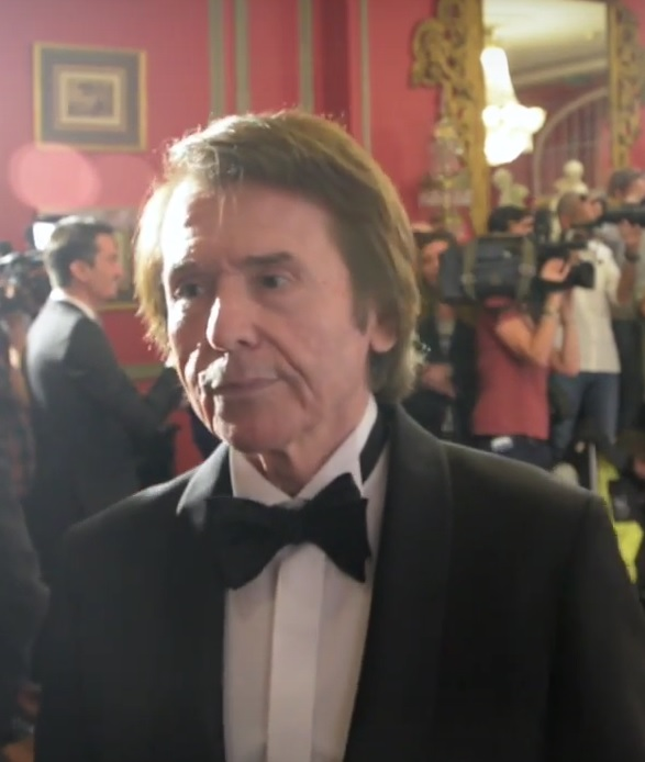 Spanish Singer Raphael